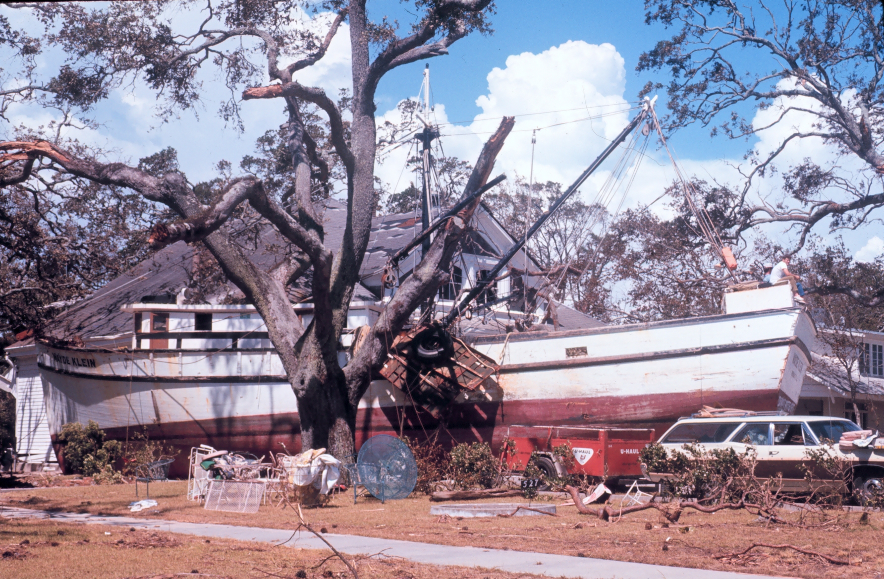 The aftermath of Hurricane Camille.